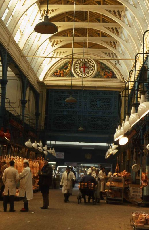 Workers inside Smithfield Market. This area is now closed off to the public. Smithfield Market is one of the most famous livestock markets in the world. It is located in West Smithfield, one of the more quieter areas of the City of London. A livestock market occupied the site as early as the 10th century. The buildings, were designed by City Architect Sir Horace Jones and completed in November 1868 . This building was subsequently destroyed by a major fire in 1958 in which two firemen lost their lives. It was replaced by the current building in 1962. The site has seen much modernising since and is still in use.